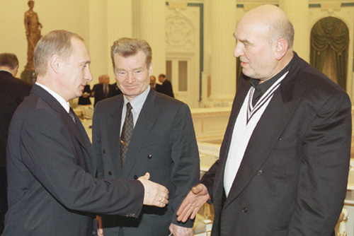 THE KREMLIN, MOSCOW. Vladimir Putin meeting with the participants in the All-Russia Congress of Ukrainians Living in Russia. Vladimir Putin with People's Artist of Russia Alexei Petrenko.